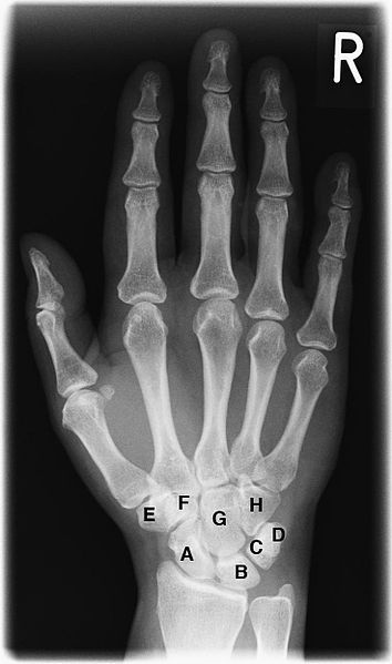 X ray of the hand